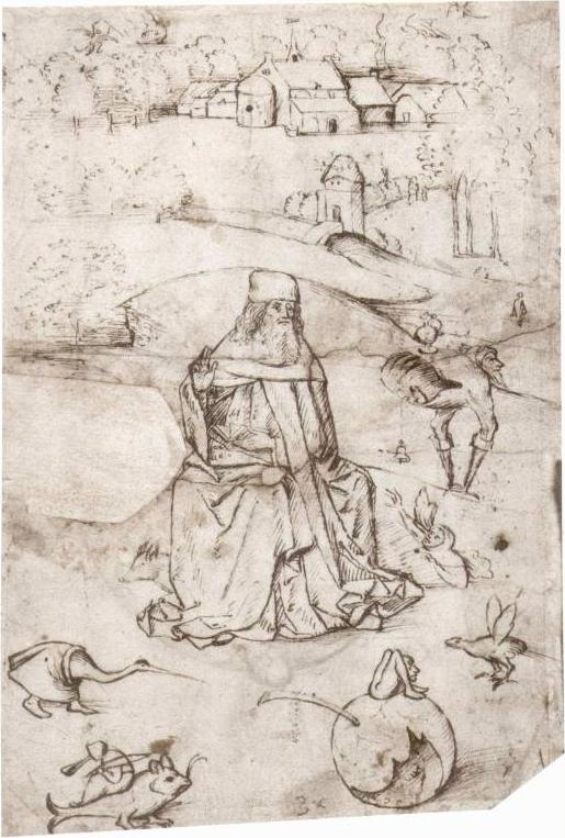 Front of a two-sided drawing. For the reverse, see File:Jheronimus Bosch Zangers in het ei.jpg.